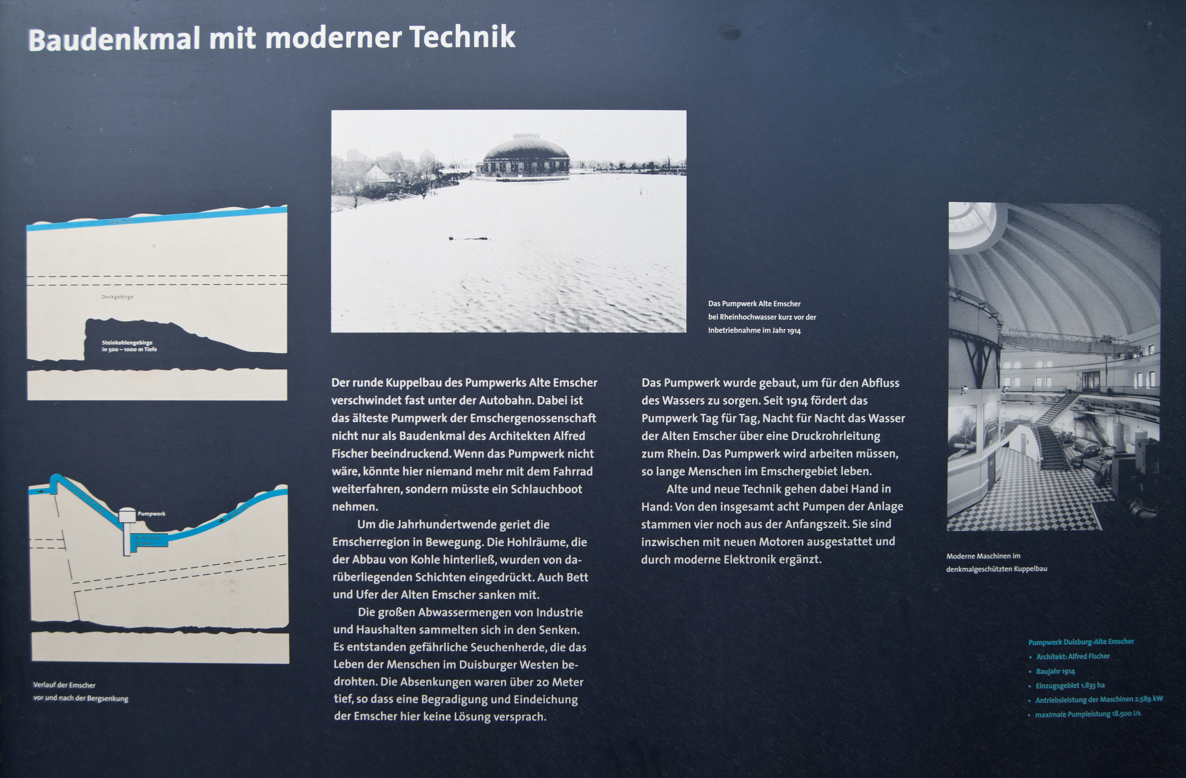 Duisburg (North Rhine-Westphalia, Germany) – district Beeck – pumping station Alte Emscher – information board of the Industrial Heritage Trail This image shows a heritage building in Germany, located in the North Rhine-Westphalian city Duisburg (no. 502). This photograph was taken with a Nikon D3000.